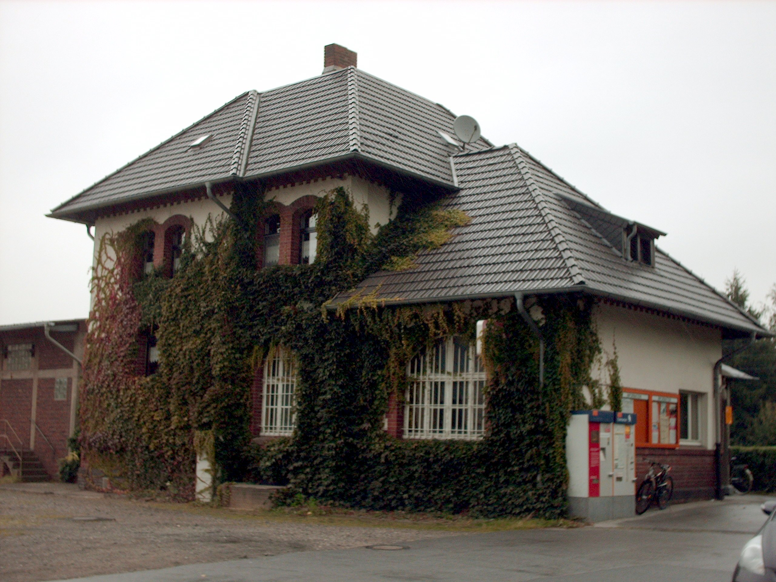 "Millingen (bei Rheinberg)" station, Rheinberg, Germany check usage